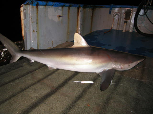 Silky shark (Carcharhinus falciformis)